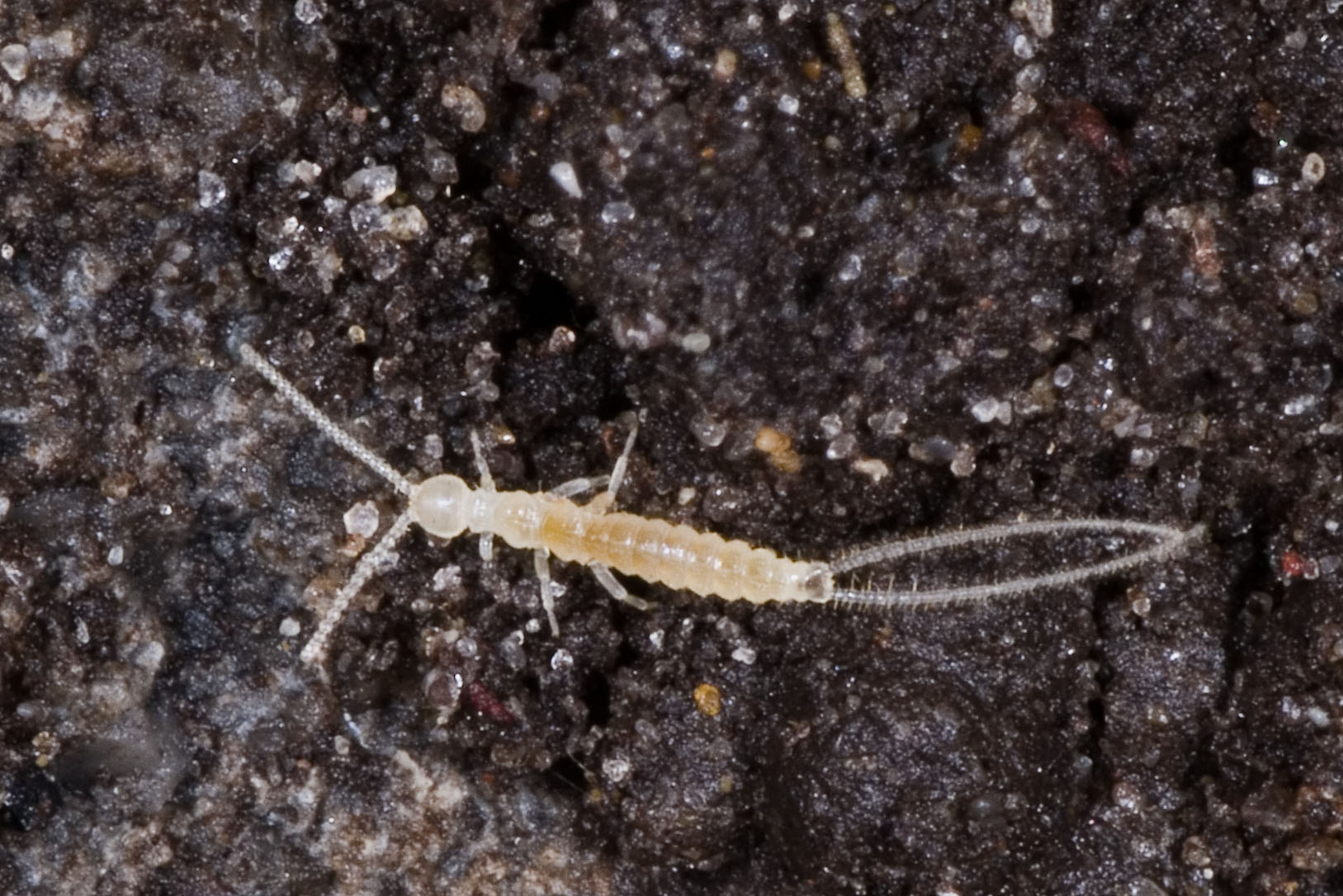 Campodea staphylinus, a dipluran. Photo by Michel Vuijlsteke. Taken on May 9, 2006 at 4.09pm CEST in Gent, Belgium.